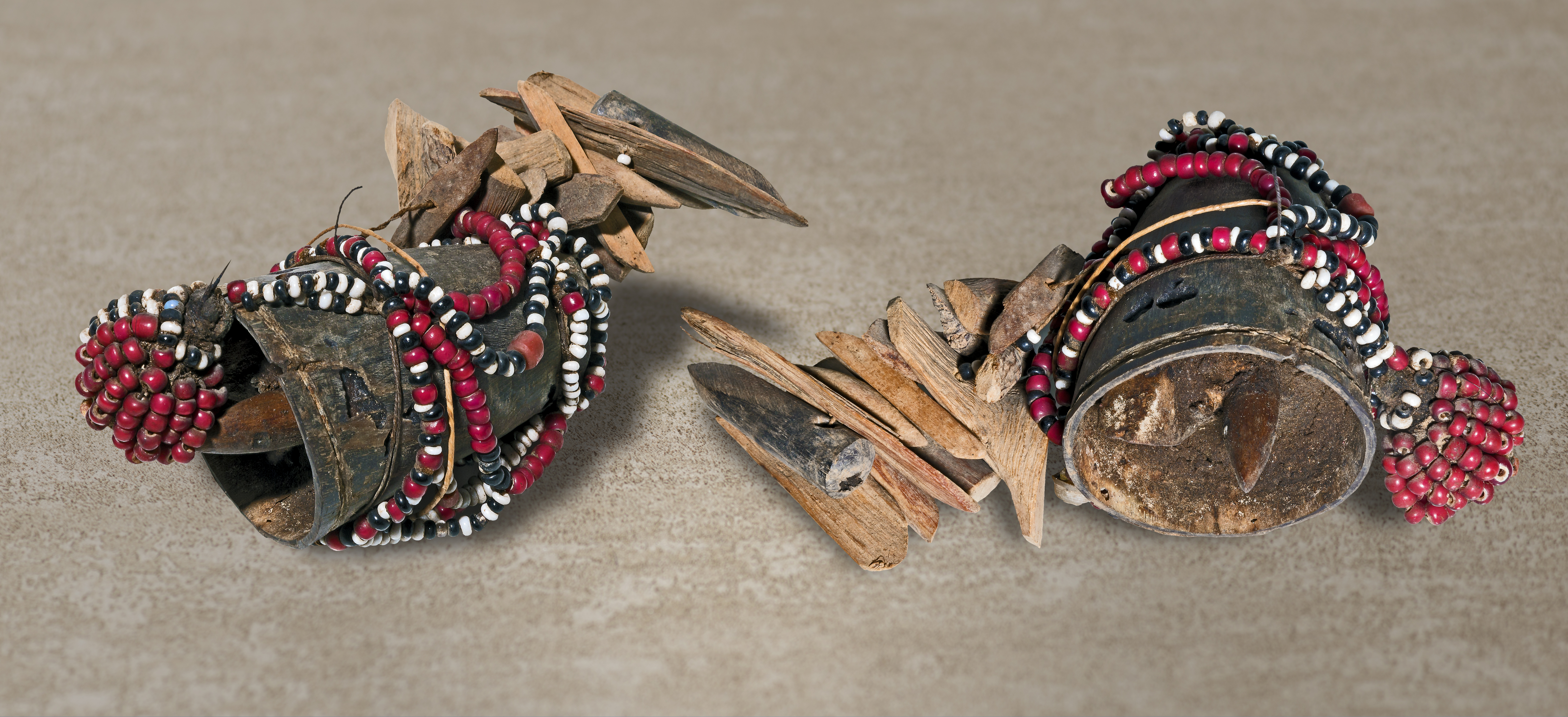 "Mohara Ody", two views of the same object. Population : Malagasy Collector and collection: Gustave Julien Collection Method: Military Shipping. "Ody. Idols taken on Fahavalo prisoners during the uprising of 1897". Analytical description : The ODY are kind of magical amulets generally consist of a piece of wood or root detached from sacred trees which are added beads, horns, seeds and various other objects or substances giving them their power. There are two forms of talismans loaded and the horns threadings kind necklaces. The Malagasy Ody is close by its protective function, vodun objects. This amulet is constituted by a horn cone filled with an earthy substance in which were planted two angular pieces of wood. The horn is covered with pieces of red glass beads, black and white and two small shells. A string of small pieces of wood and glass bead is attached to the horn. Also found pearls in the shape of olives that are quite rare. Materials: Wood, horn, glass bead, shell. Size : 4.5 x 6.5 cm